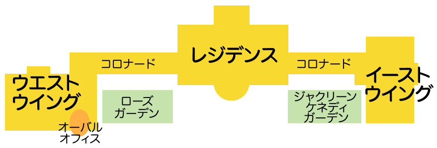 Plan of the White House buildings.